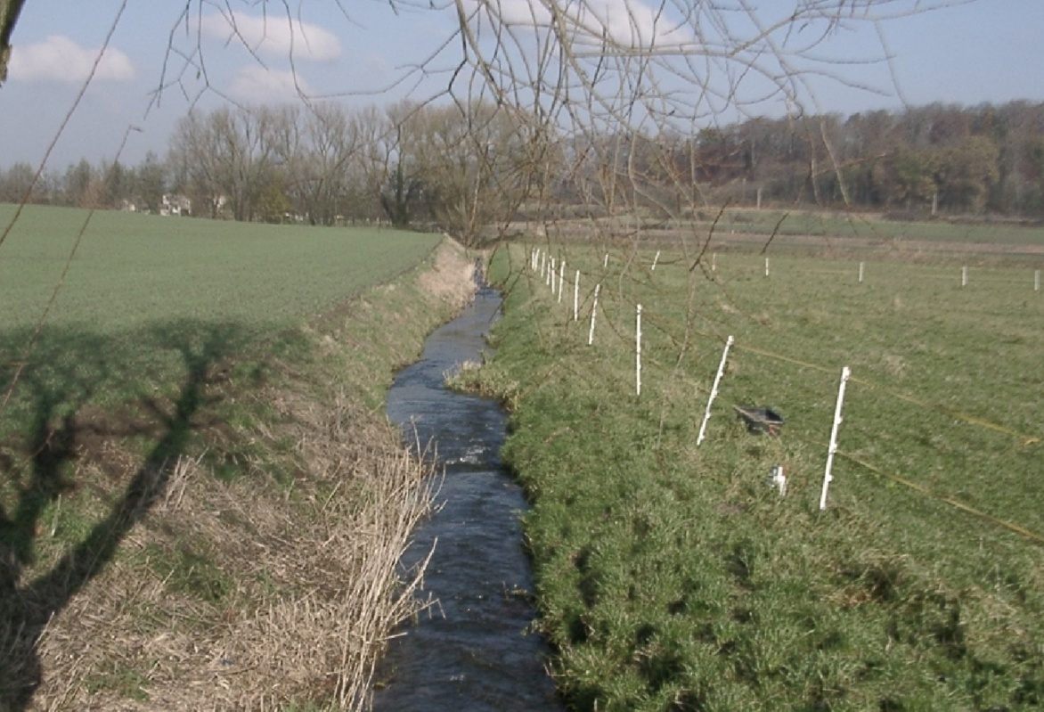 Small stream in an agricultural landscape (Germany, Lower Saxony).